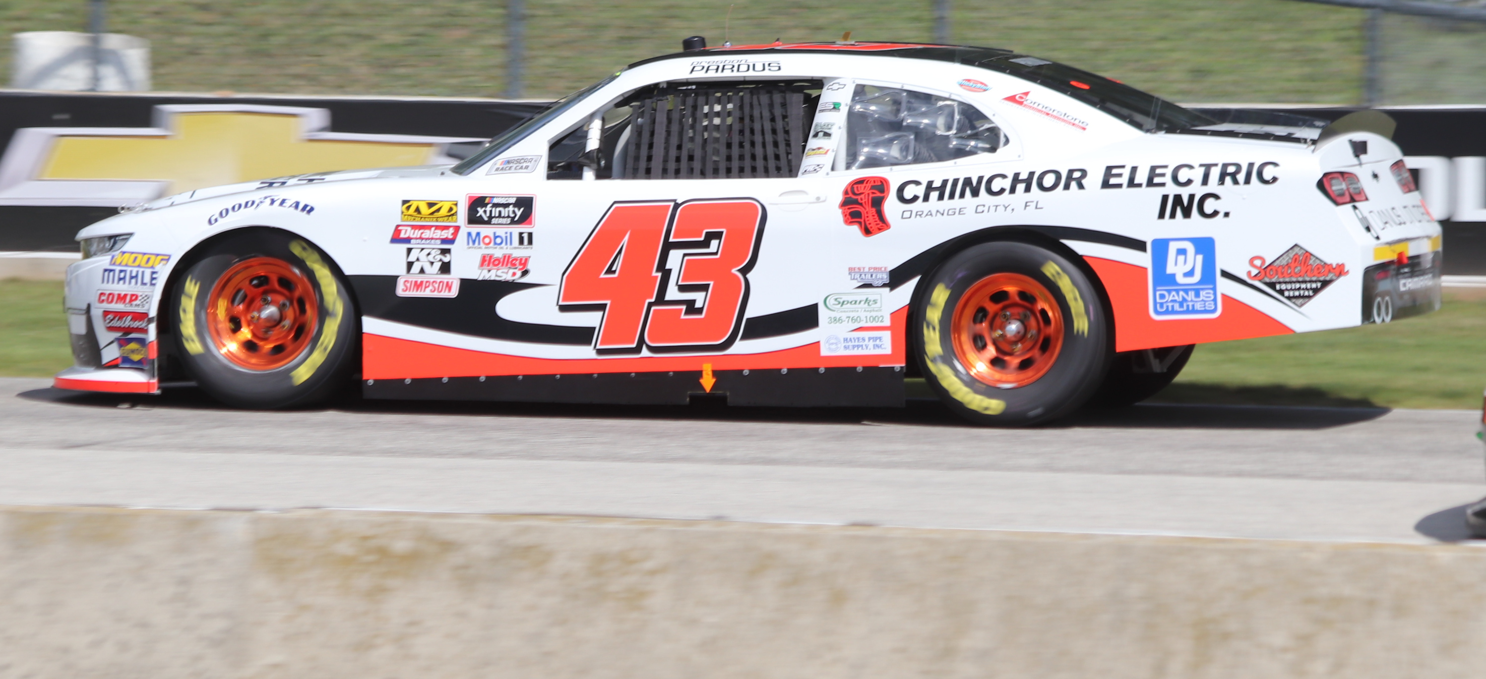 The #43 Chevrolet Camaro of Preston Pardus at the NASCAR CTECH 180.